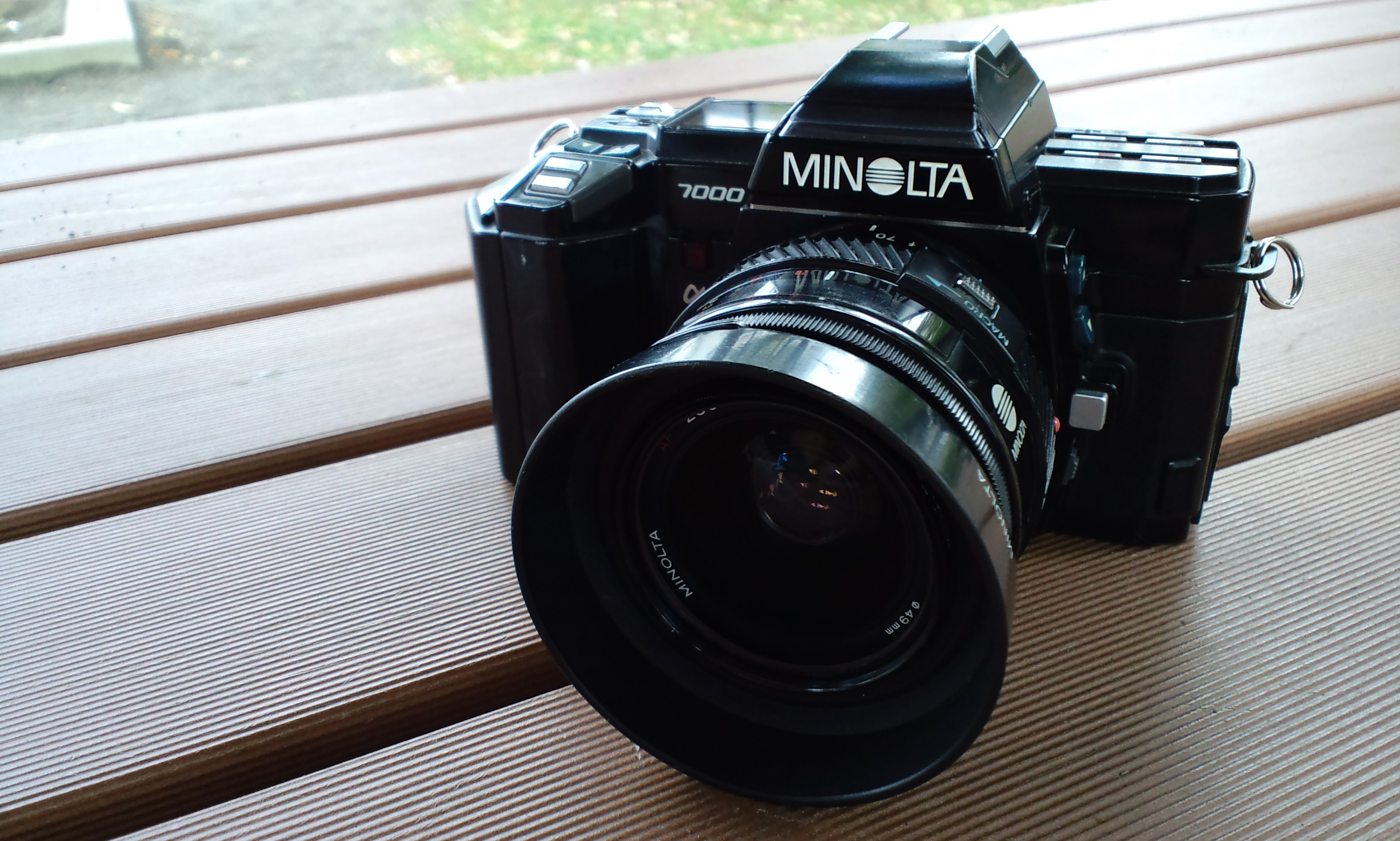 Minolta Maxxum 7000 Alpha Mount SLR camera.